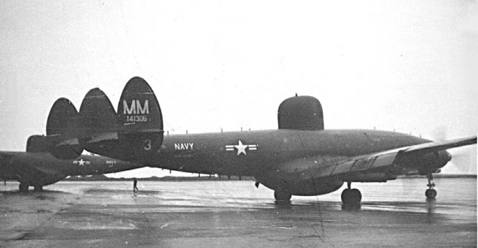 AETULANT (MM 3) WV-2 (BuNo 141306) during engine startup in December 1963 at NAS Keflavik, Iceland. Photographed by Baldur Sveinsson. Lockheed Constellation Military Collection Photo Repository: San Diego Air and Space Museum Archive